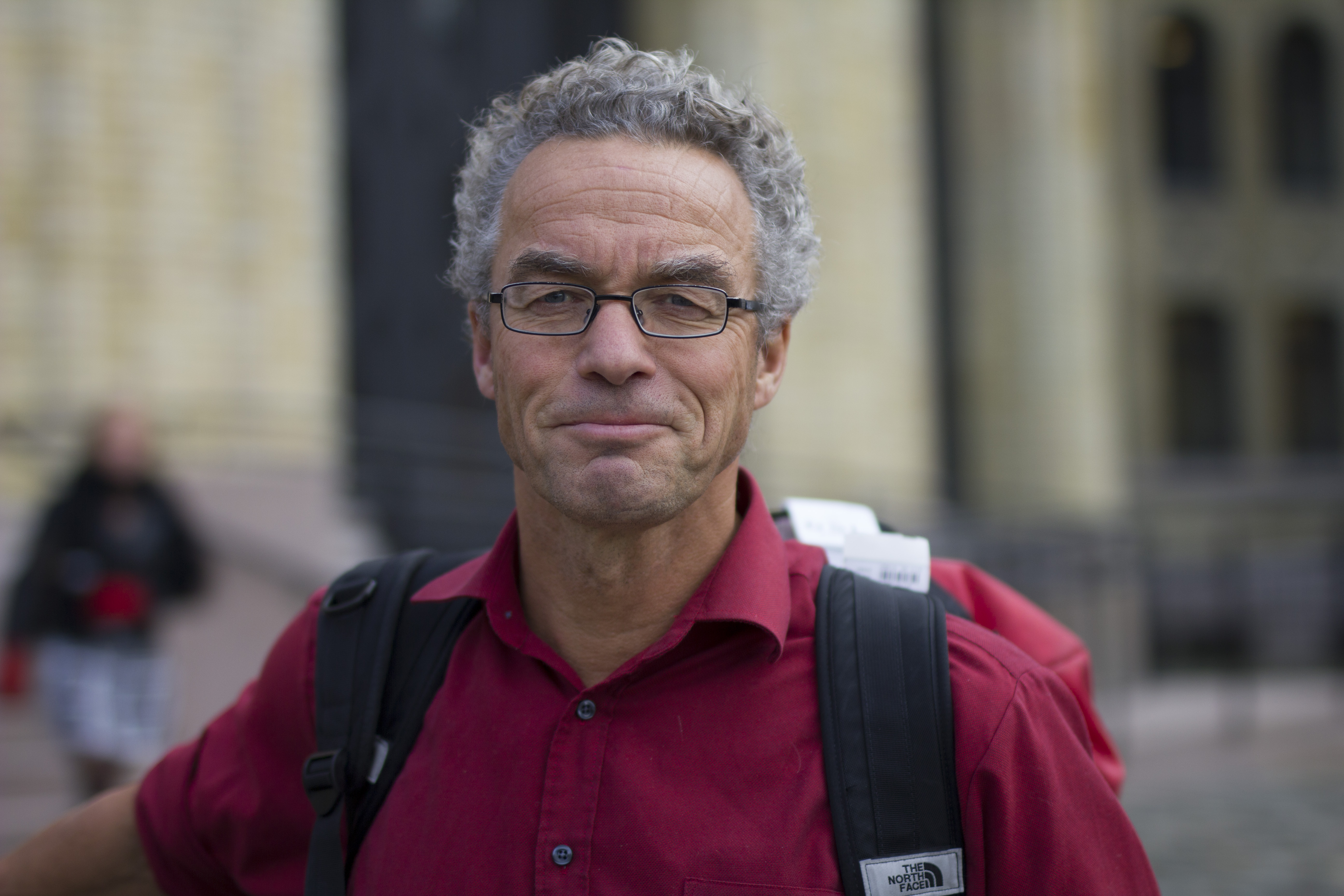 Picture of Rasmus Hansson, representative of the Green Party in the Parliament of Norway.